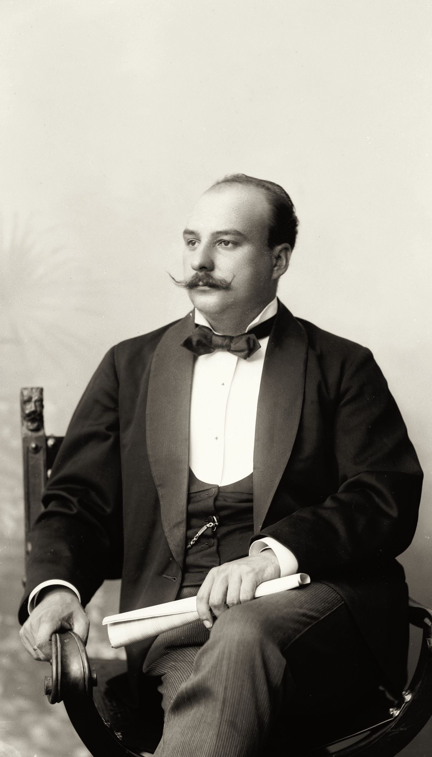 Theatre Tabor Oskar Nedbal